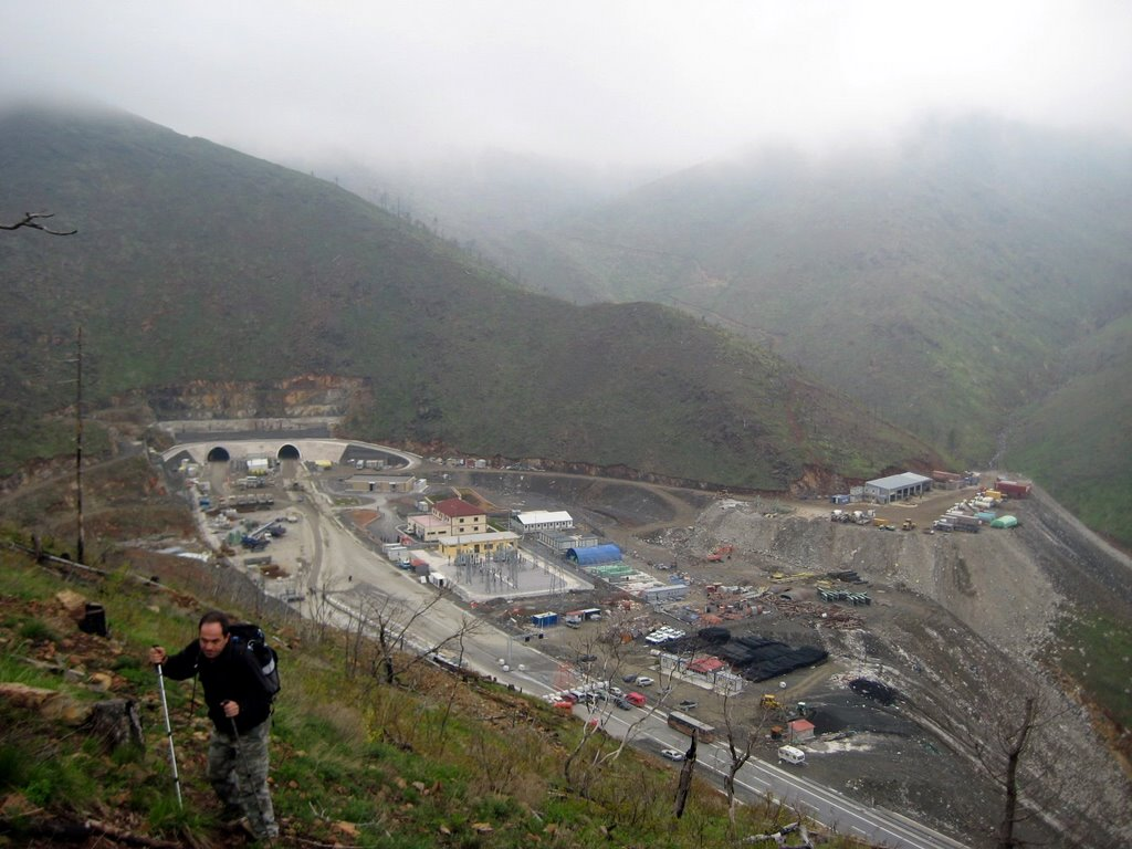 Photos from Arianit Dobroshi for Wikimedia Commons. Original Filename "arianit/Kalimash/image205.jpg"